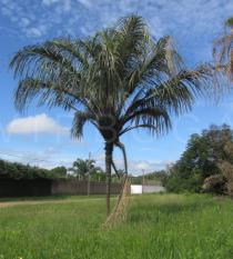 se encuentra en una plaza